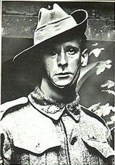 AWM caption : Portrait of 114 Sergeant Walter Peeler VC, 3rd Pioneer Battalion who was awarded his Victoria Cross as a Lance Corporal, 4 October 1917, during the fight for Broodseinde Ridge, east of Ypres, Belgium.